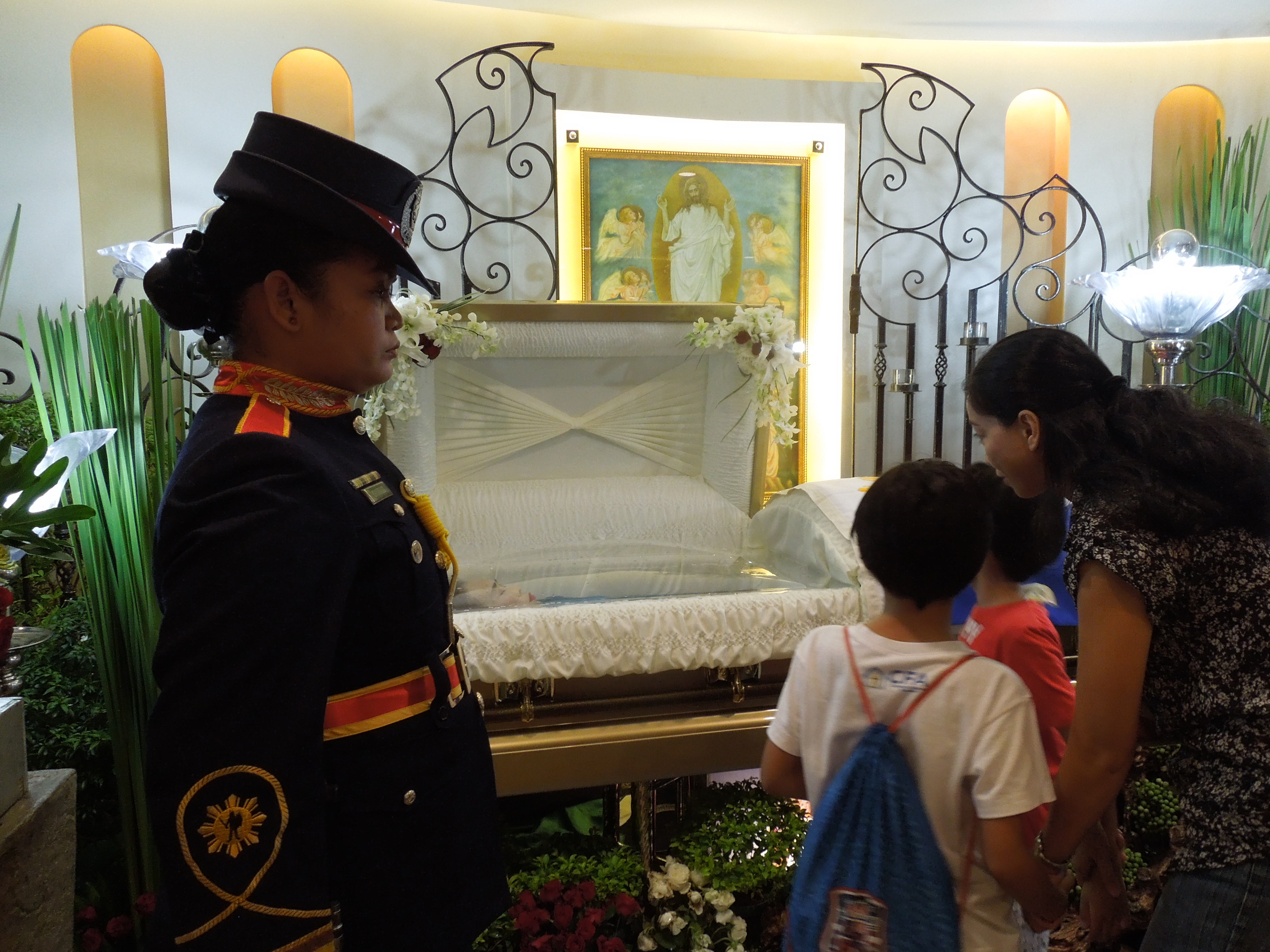 Patricia Licuanan Wedding at, and Wake (ceremony) of Miriam Defensor Santiago with Spouse Narciso "Jun" Y. Santiago at The Cathedral Grottos of the Roman Catholic Diocese of Cubao Cubao Cathedral Funeral practices and burial customs in the Philippines Lying in state in 40 Lantana Street, List of barangays of Metro Manila Legislative districts of Quezon City, Barangays of Quezon City, Barangay Immaculate Conception (Betty Go-Belmonte), Cubao, District IV, Quezon City, with Honorable People visiting it, Sonny Angara Joel Villanueva Eduardo Ermita Commission on Higher Education (Philippines) HEDC Building, C.P. Garcia Avenue, UP Campus, Diliman, Quezon City Dr. Patricia B. Licuanan, Chairperson, with Journalists Marichu A. Villanueva (Note: Judge Florentino Floro, the owner, to repeat, Donor Florentino Floro of all these photos hereby donate gratuitously, freely and unconditionally all these photos to and for Wikimedia Commons, exclusively, for public use of the public domain, and again without any condition whatsoever).